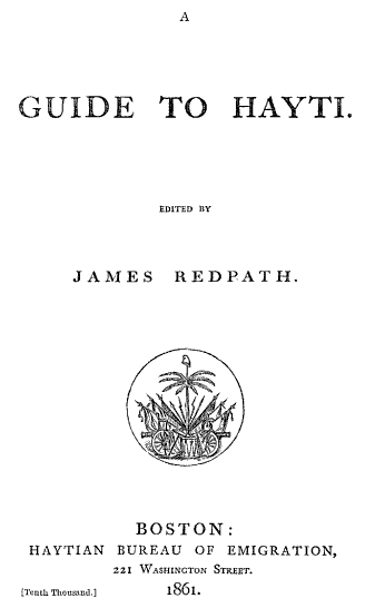 From: James Redpath, ed. A guide to Hayti. Boston: Haytian Bureau of Emigration, 1861. (Guidebook to Haiti)